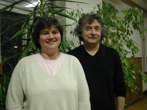 Picture of the leaders of the Communist Party of Austria